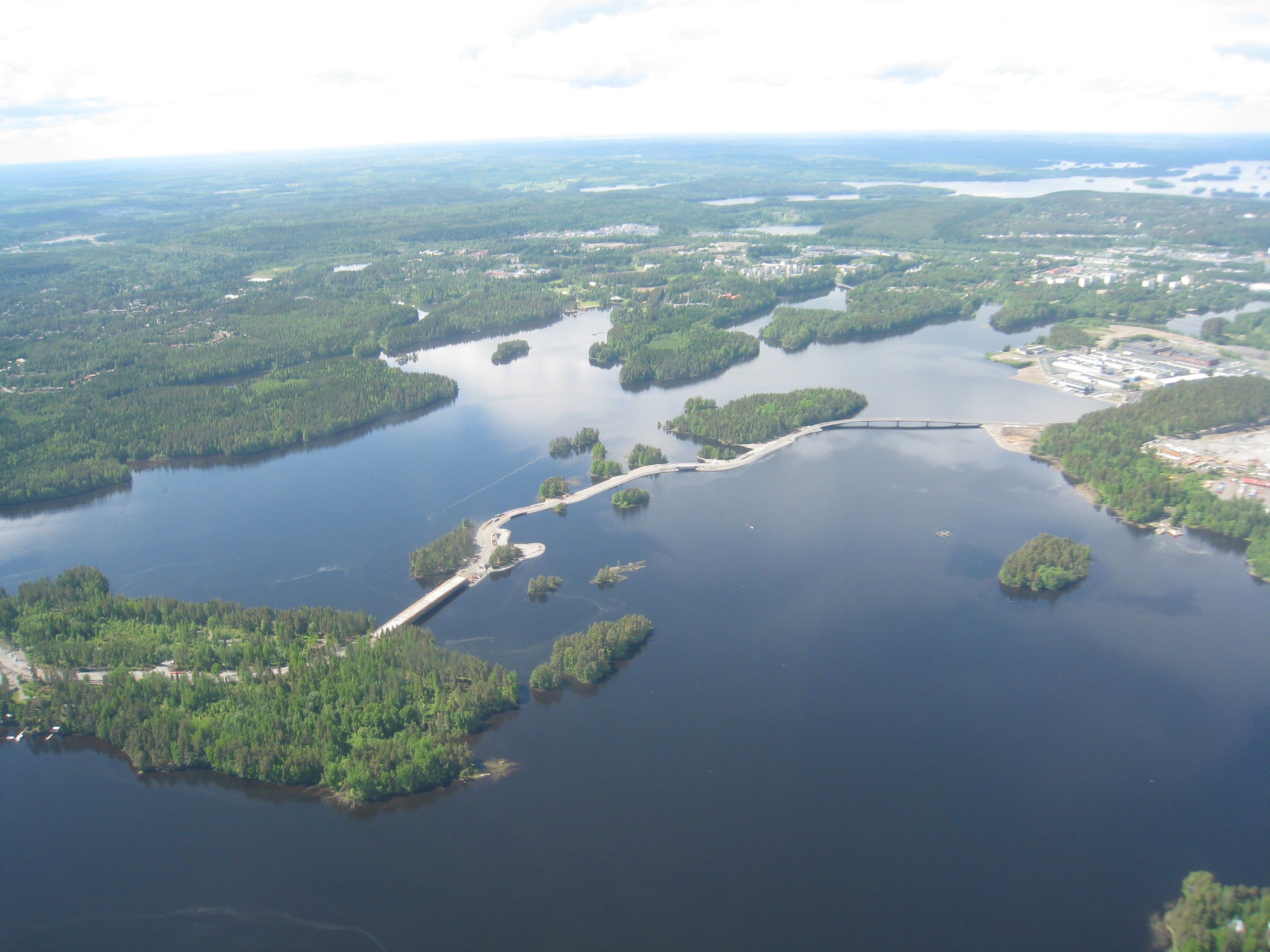 Saaristokatu street in Kuopio, Finland from air